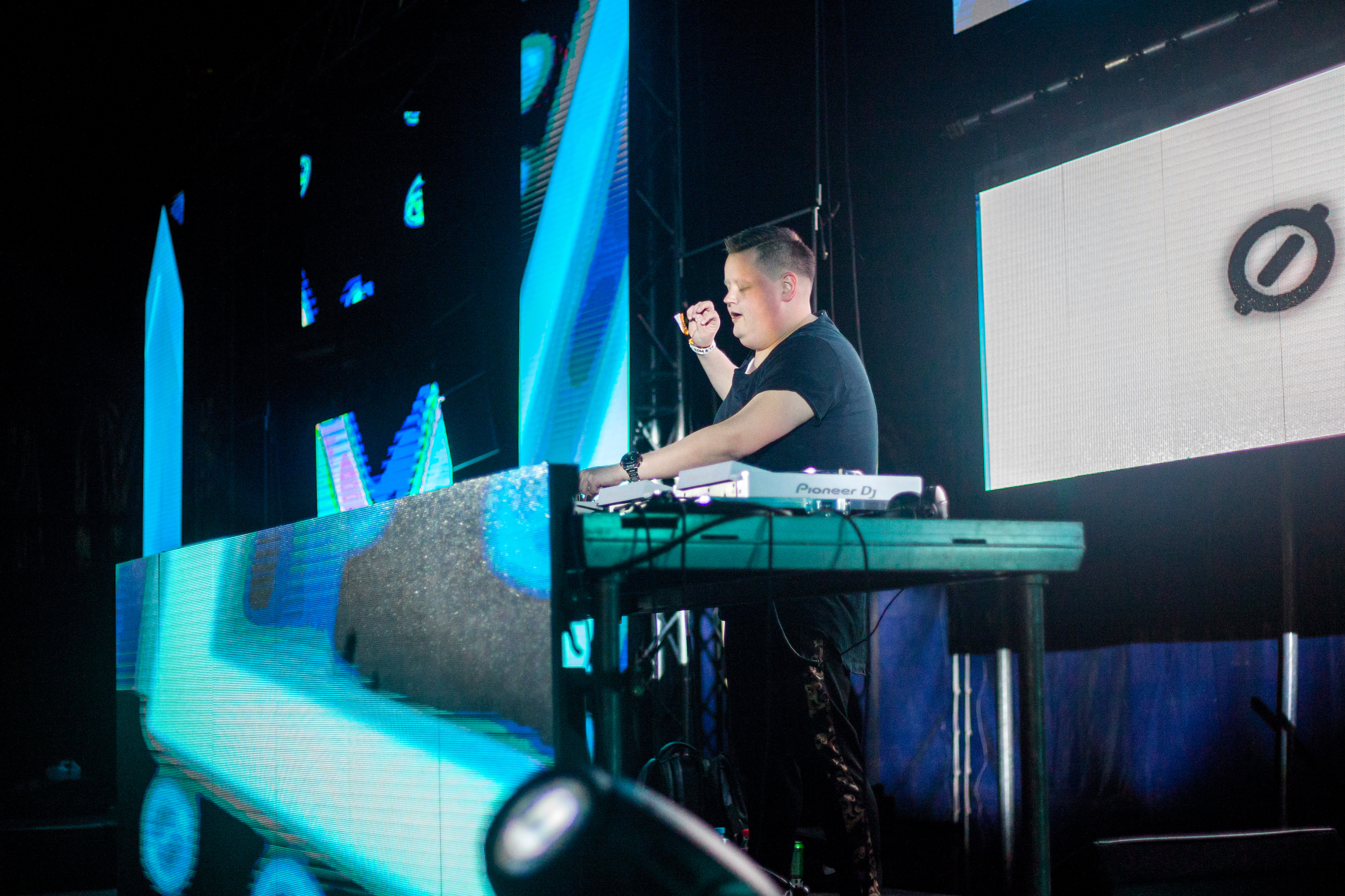 Ørjan Nilsen, Norvegian producer and DJ performing at Beats for Love (electronic music festival in Ostrava) on 3 July 2019